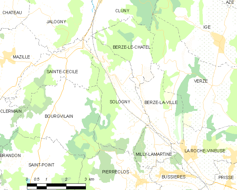 Map of French municipality